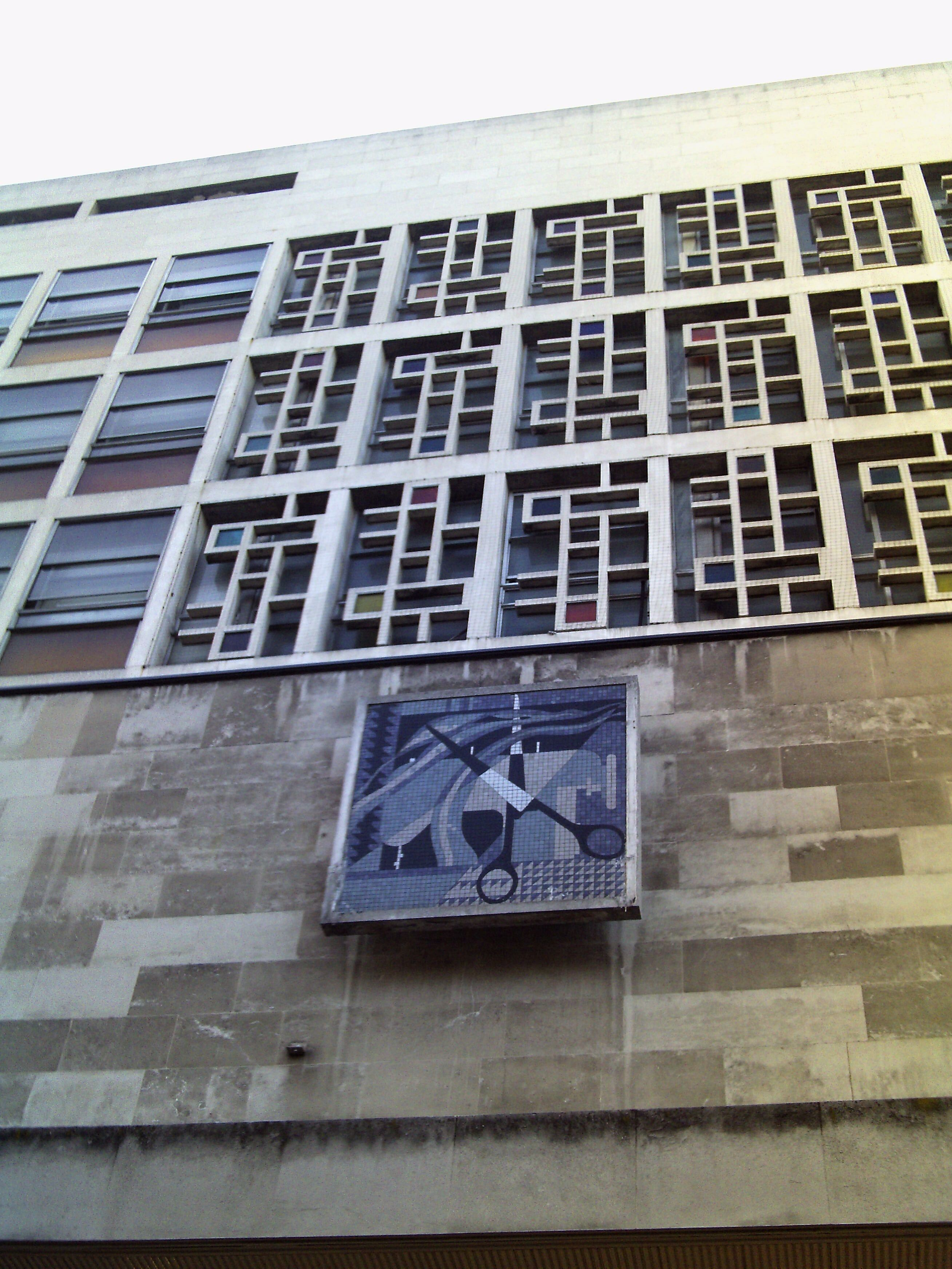 Detail from building of London College of Fashion, John Princes Street site, near Oxford Circus, pictured from Oxford Street.